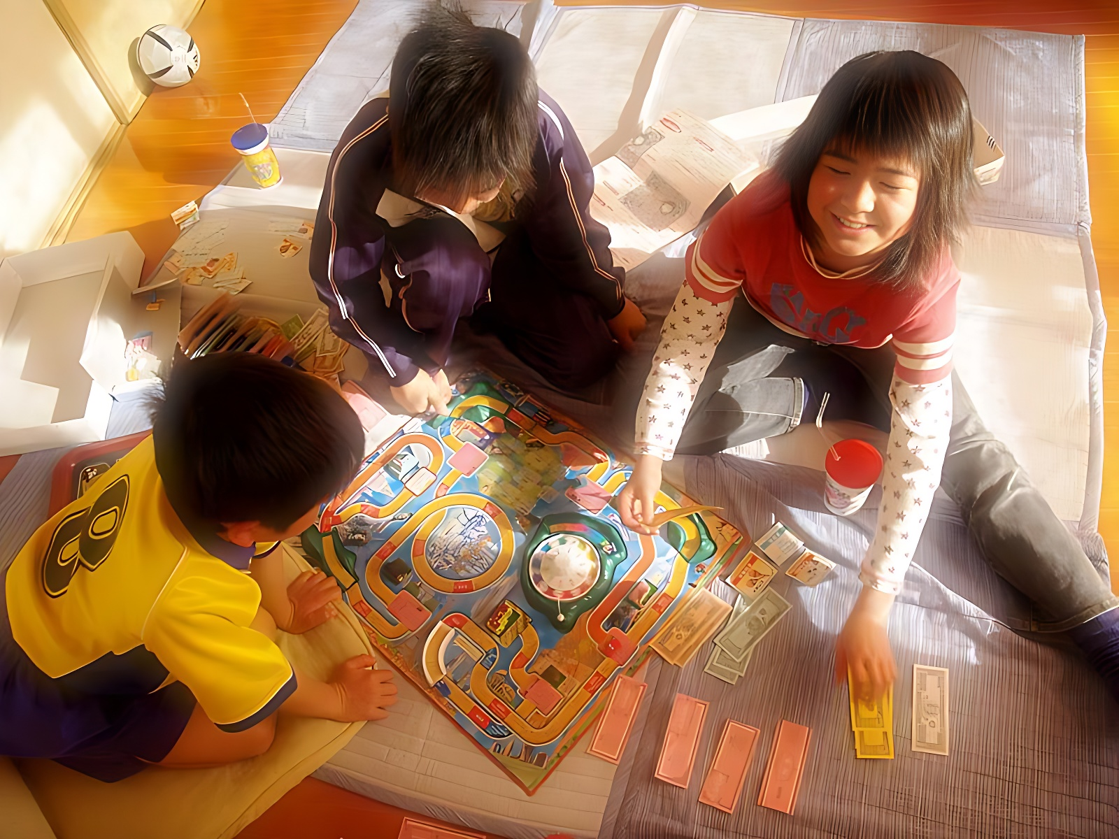 人生ゲーム (Jinsei Game) Game of Life E-300 14-45mm